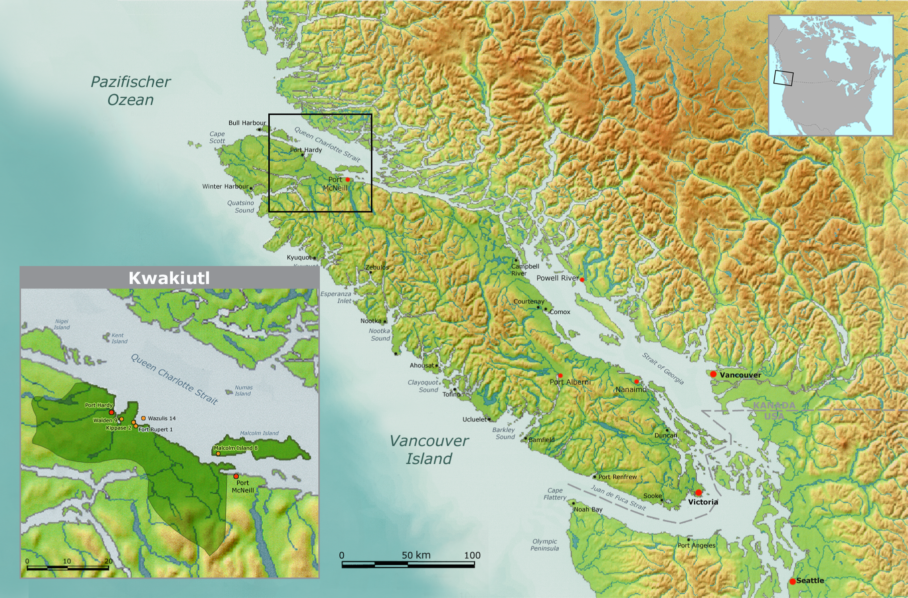 Map of Kwakiutl traditional tribal territory about 1850